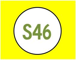 Semangat 46 logo